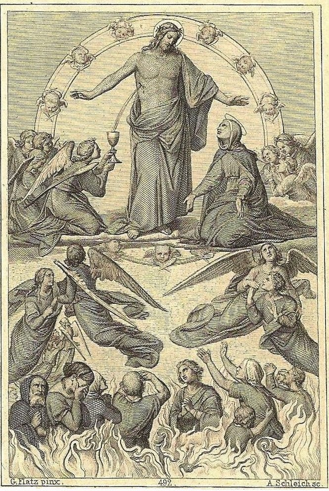 the graces of the holy mass